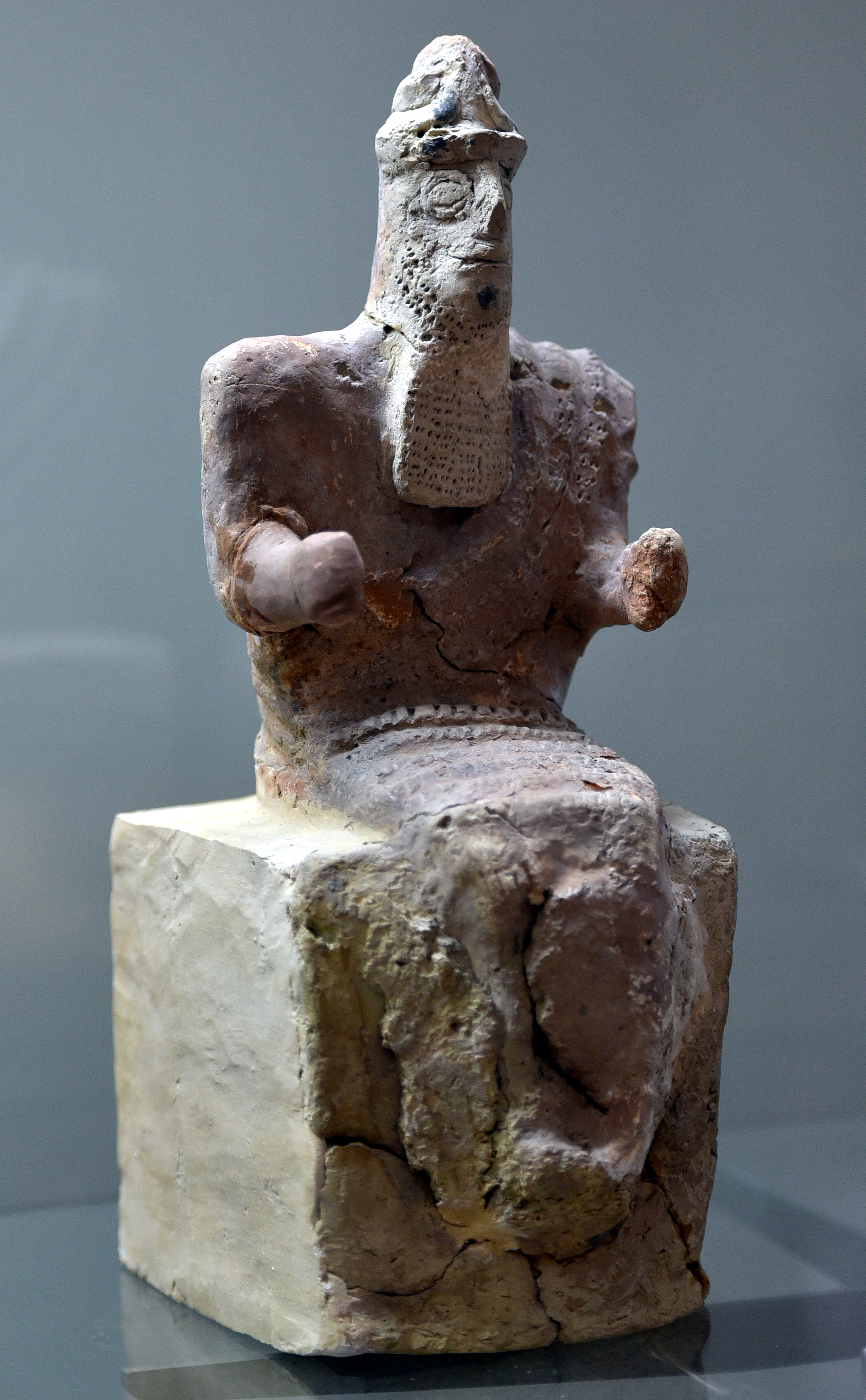 God Enlil, seated. The clenched left fist holds an object (now lost). From the Scribal Quarter at Nippur, Iraq. 1800-1600 BCE. Baked clay. Traces of red and black paint can be seen. On display at the Iraq Museum in Baghdad, Iraq.